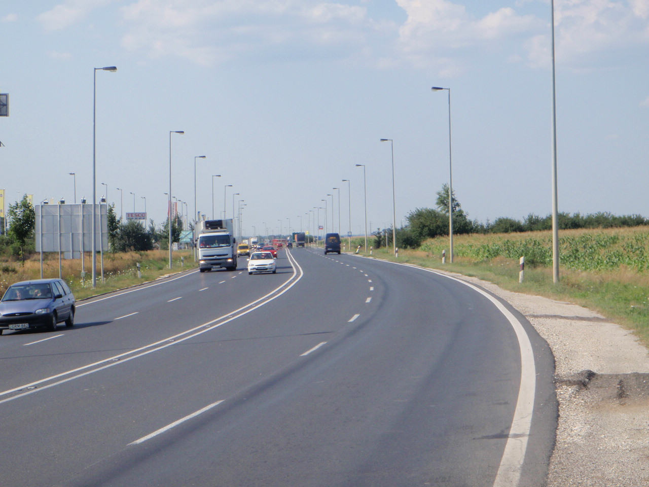 Hungarian state road 86-87, east of Szombathely, Hungary